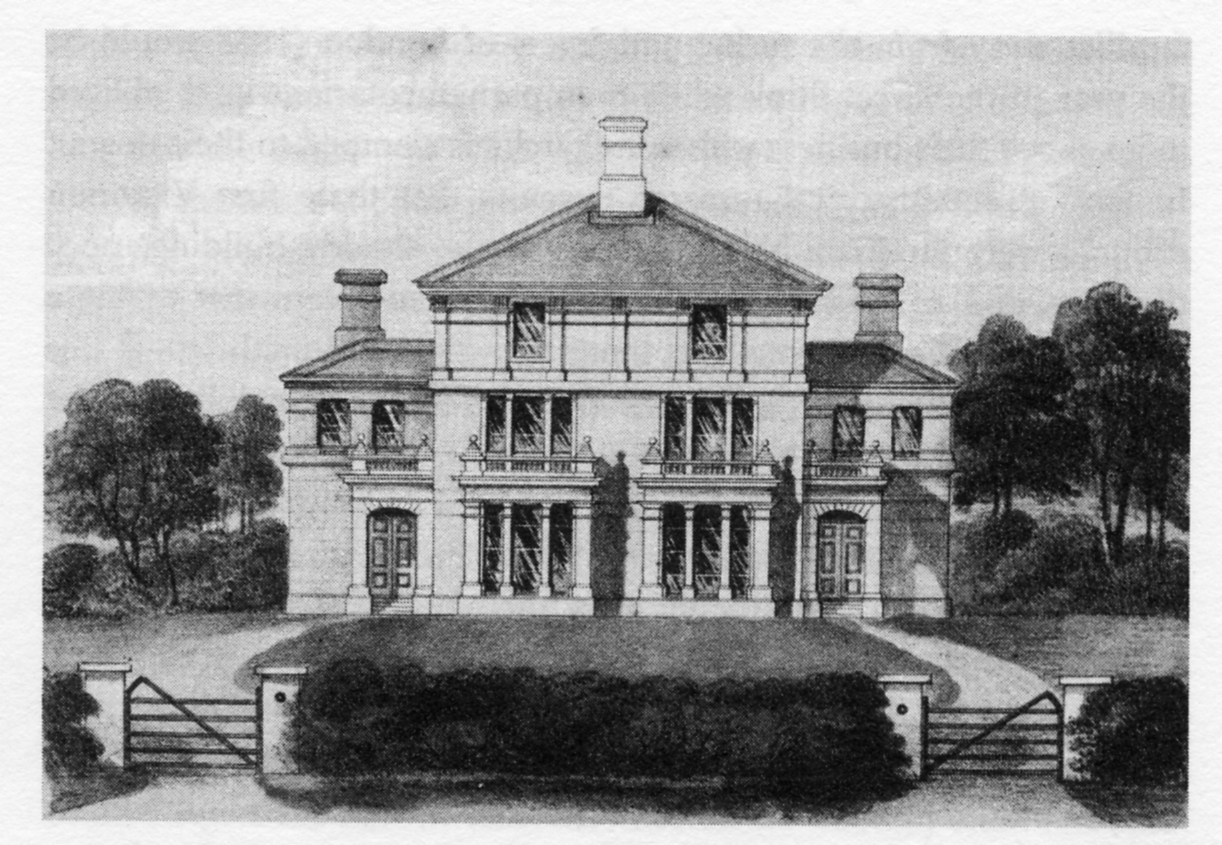 Chandos Villas at Pinner near London, 1855, home of author/journalist Isabella Beeton